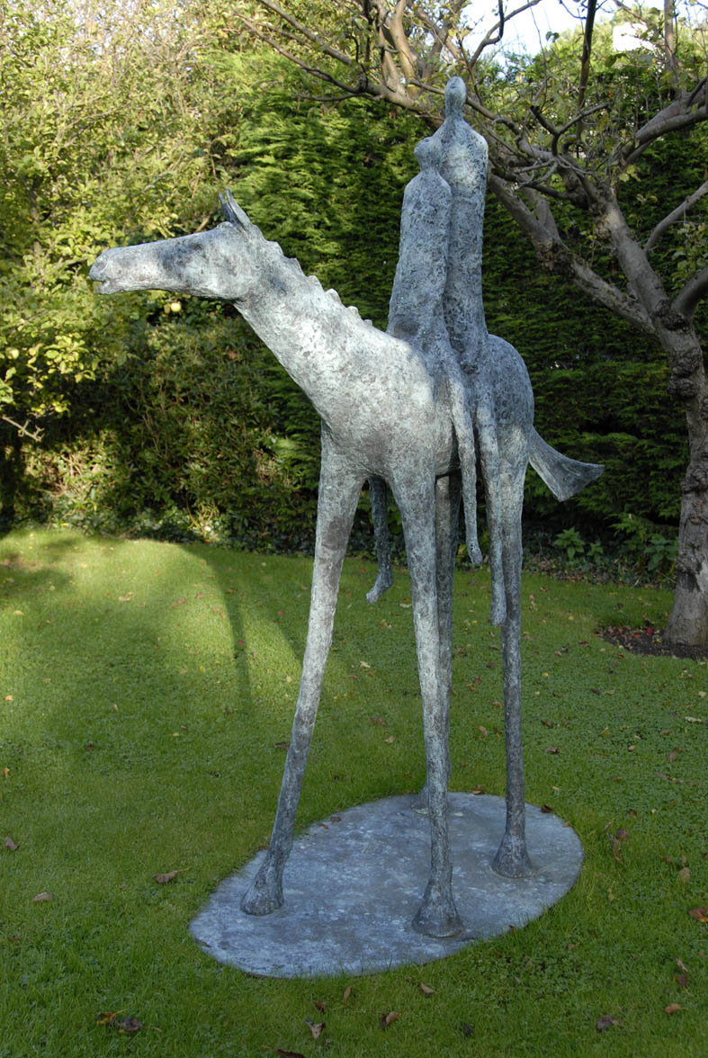 The source of this image is the photographer himself, Roger Kohn who is the creator and/or sole owner of the exclusive copyright of this photograph, Looking for Orion (at Clonlea Studios) and agrees to publish that work under the Creative Commons Attribution 3.0 License. which states that the artist agrees to share the work under the following conditions: You must attribute the work in the manner specified by the author or licensor (but not in any way that suggests that they endorse you or your use of the work). Permission granted 2nd January 2008. Title: Looking for Orion (Clonlea Studios) Description: A photograph of the sculpture created by Rowan Gillespie Looking for Orion, taken by Roger Kohn at Clonlea Studios.